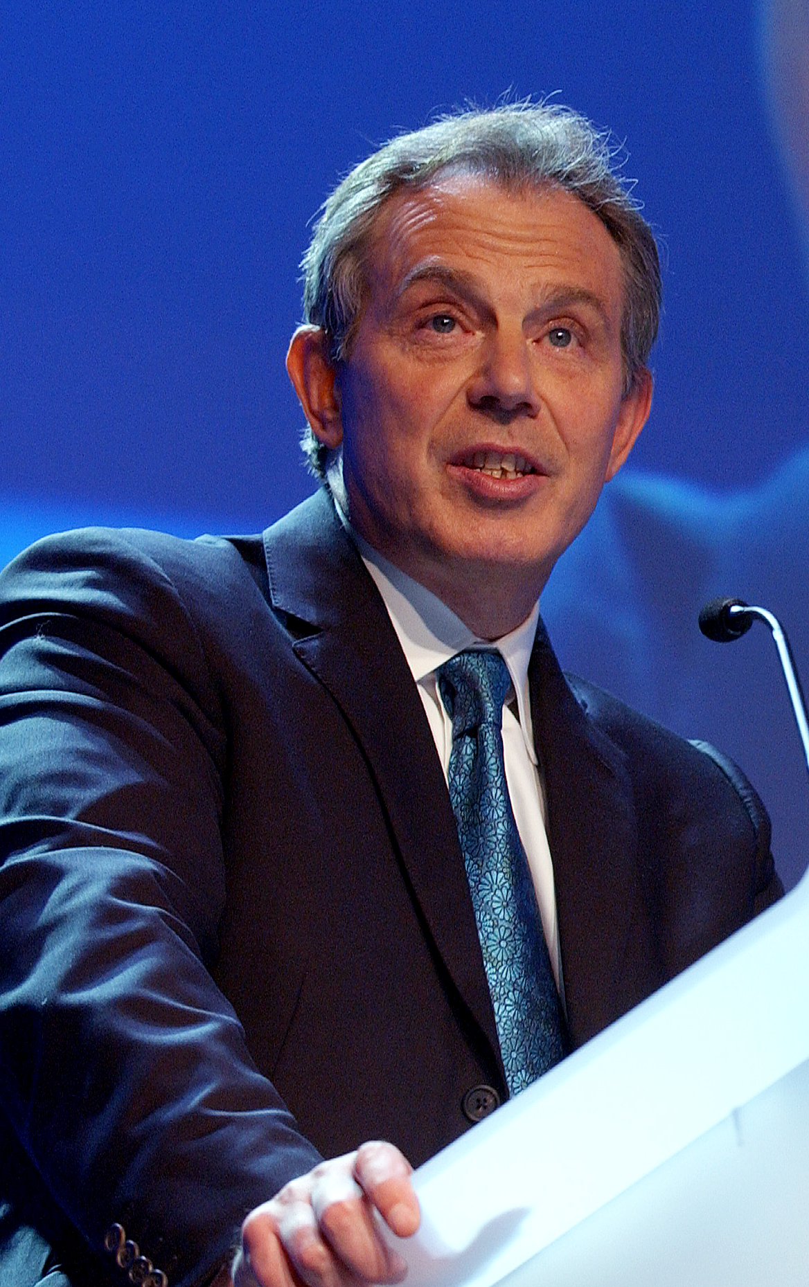 DAVOS/SWITZERLAND, 26JAN05 - Tony Blair, Prime Minister of the United Kingdom, captured during the Session 'Special Address' at the Annual Meeting 2005 of the World Economic Forum in Davos, Switzerland, January 26, 2005.